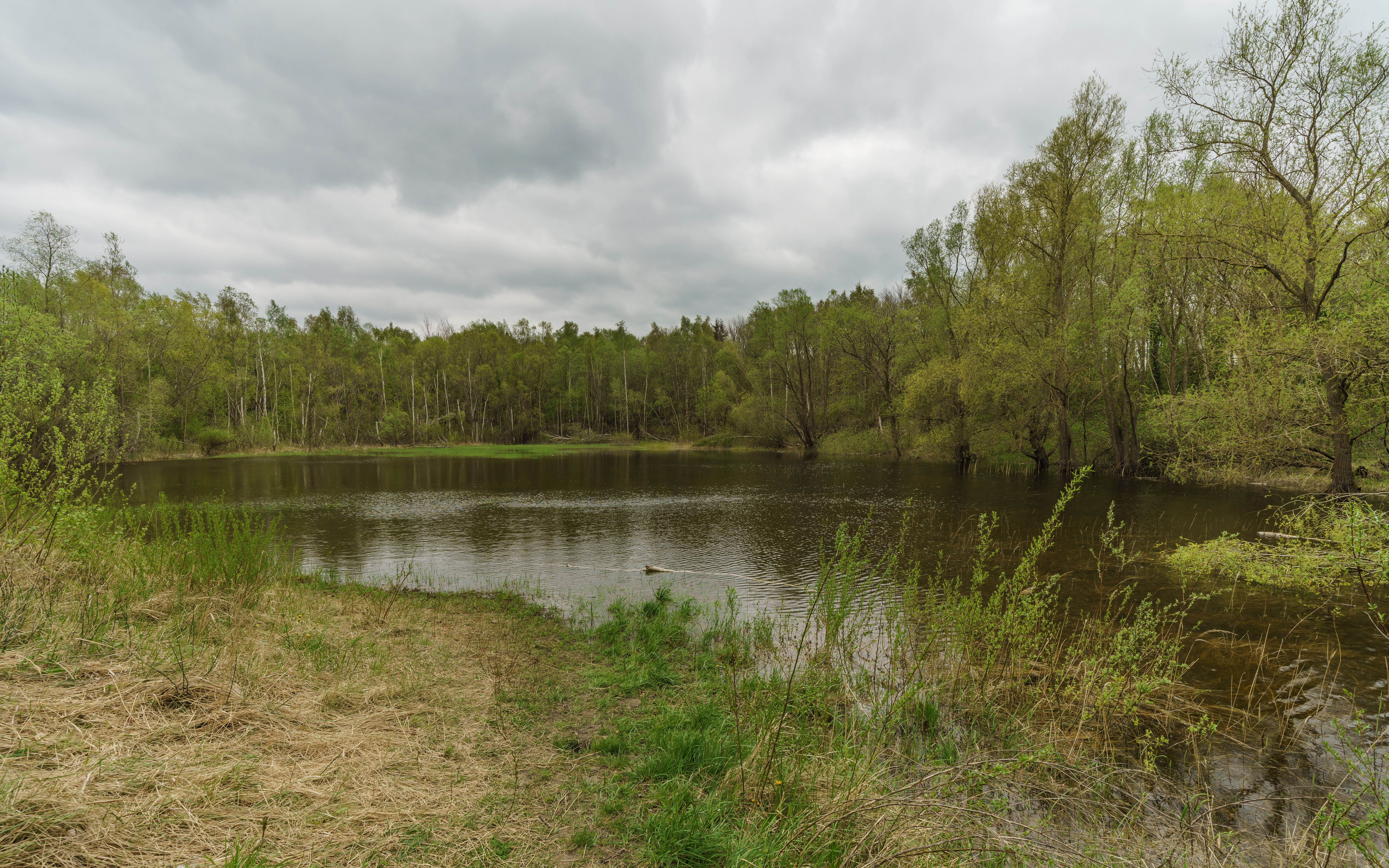 Protected area of Stoltera near Warnemünde, Rostock, Germany